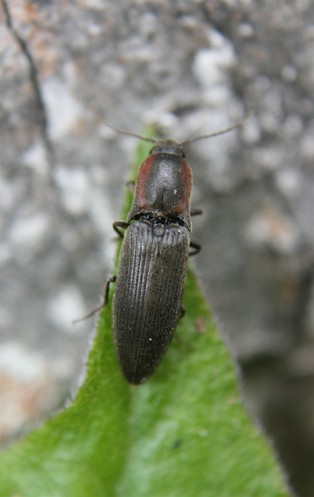 Click-beetle (Agriotes fucosus)